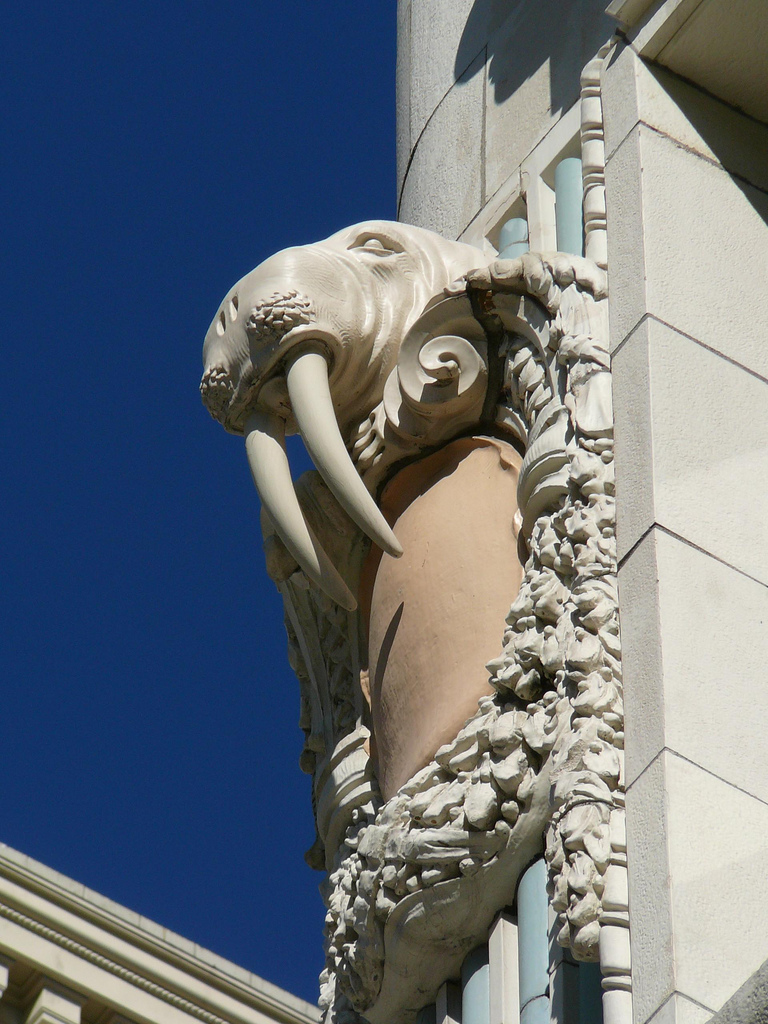 Terra cotta sculpture of a walrus, used on the face of the Arctic Club building in Seattle, WA